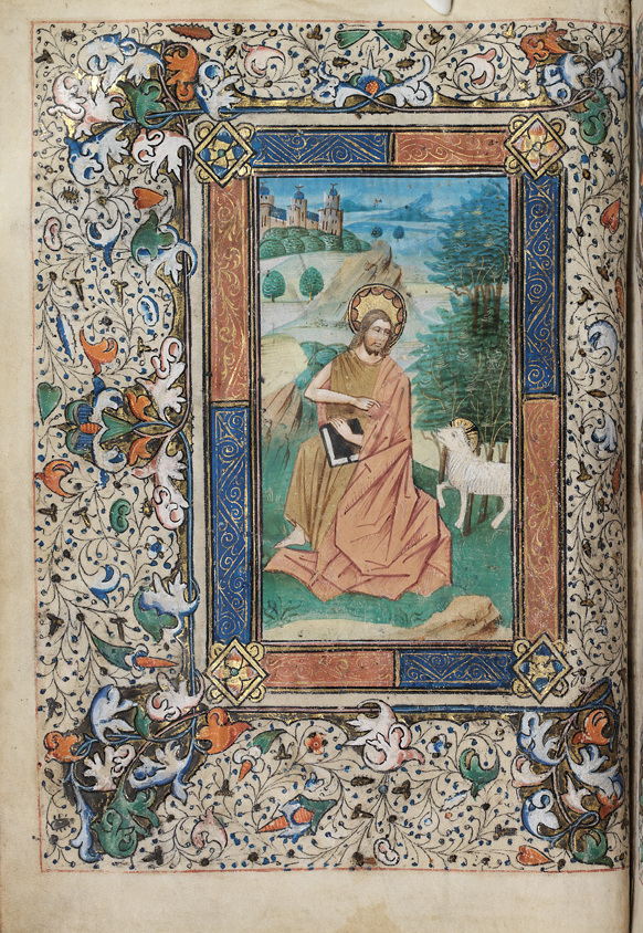 An illustration of St John the Baptist from the 'De Grey' book of hours